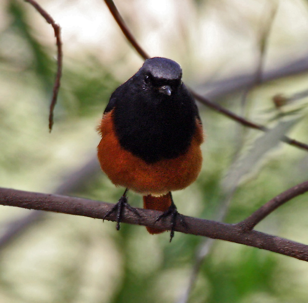 Black Redstart (Phoenicurus ochruros) at Sultanpur National Park in Gurgaon District of Haryana, India.